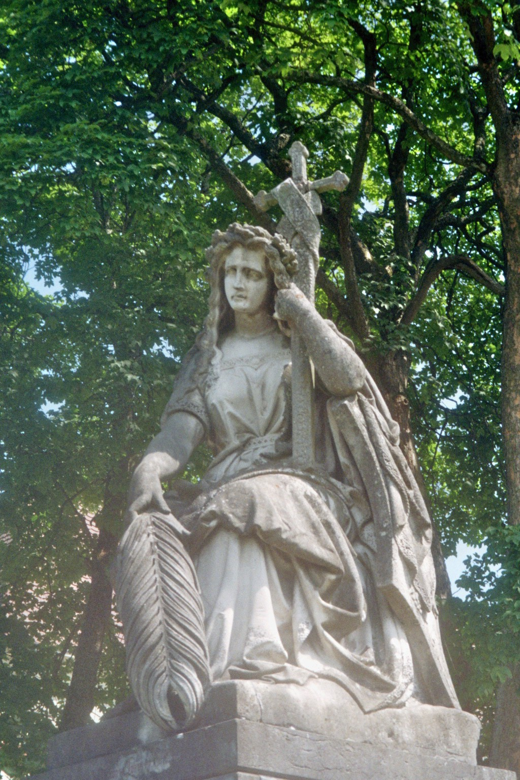 Sculpture of the Mourning Germania in memorial of the victims of the "Deutscher Krieg" in 1866. The sculpture is situated in the Bavarian spa resort of Bad Kissingen in Germany opposite to the "Kapellenfriedhof".